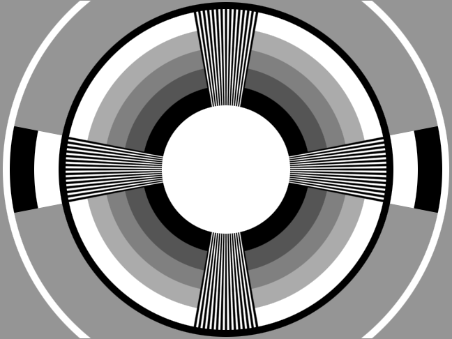 Test pattern design used by CBS owned stations from the late 1940's and also by stations not necessarily affiliated with the network.